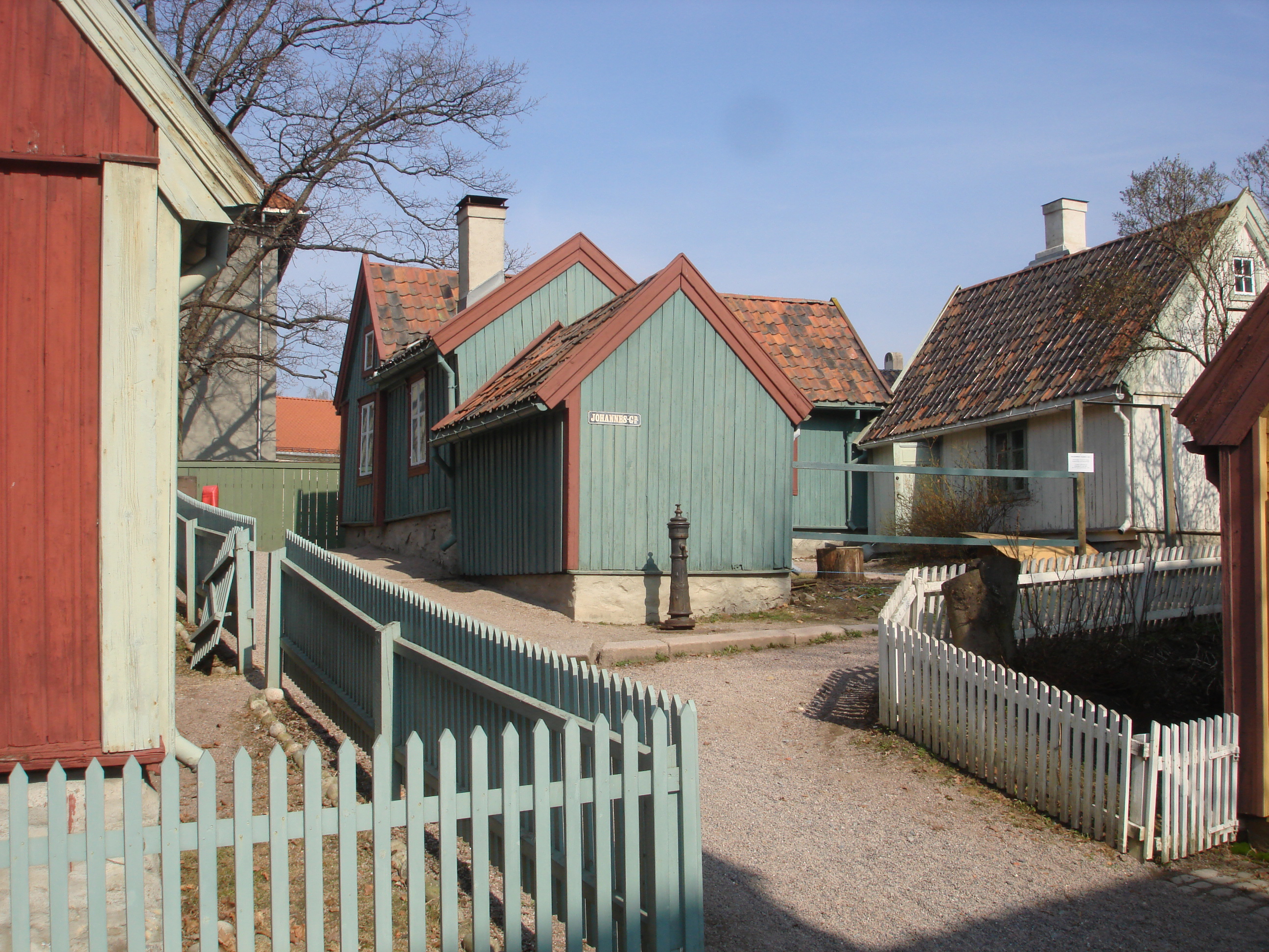 19th century houses from Christiania suburb Enerhaugen, re-erected at the Norsk Folkemuseum 1960.